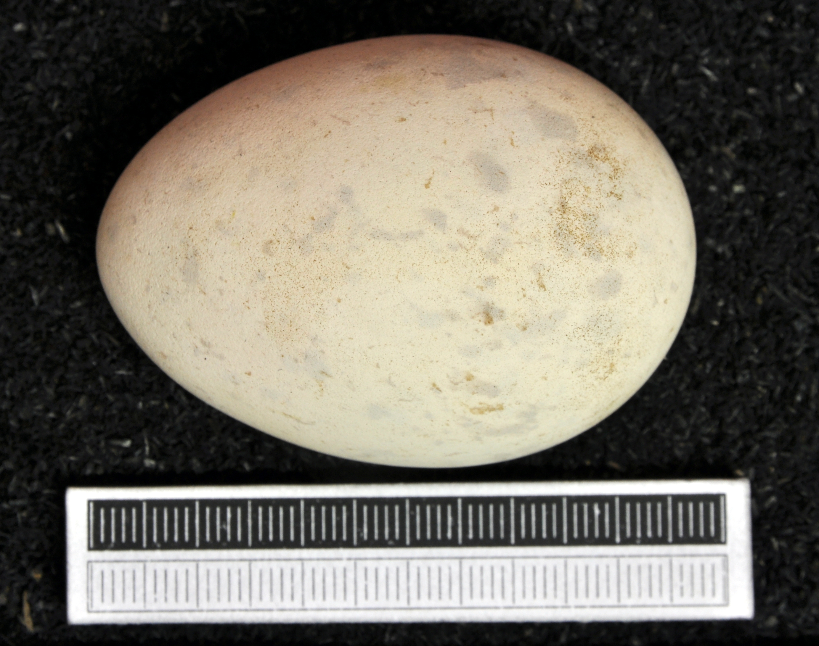 Atlantic puffin Fratercula arctica , egg, Coll. Museum Wiesbaden